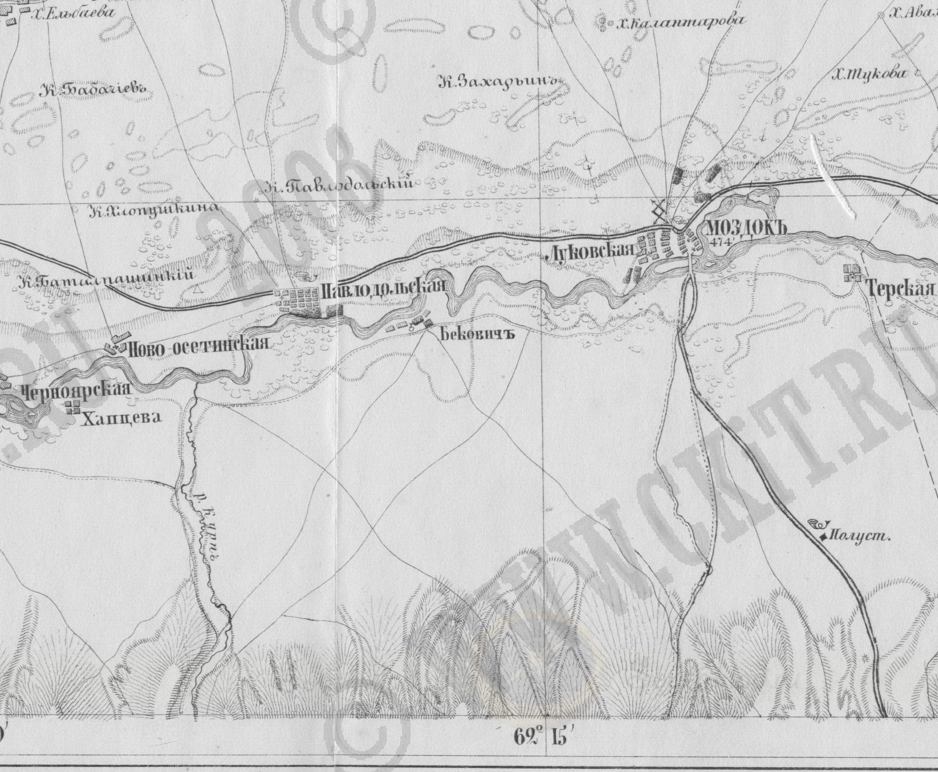 Kumyk village of Bekovichi (today (Güçükäyurt) Kizlar in the Northern Ossetia).